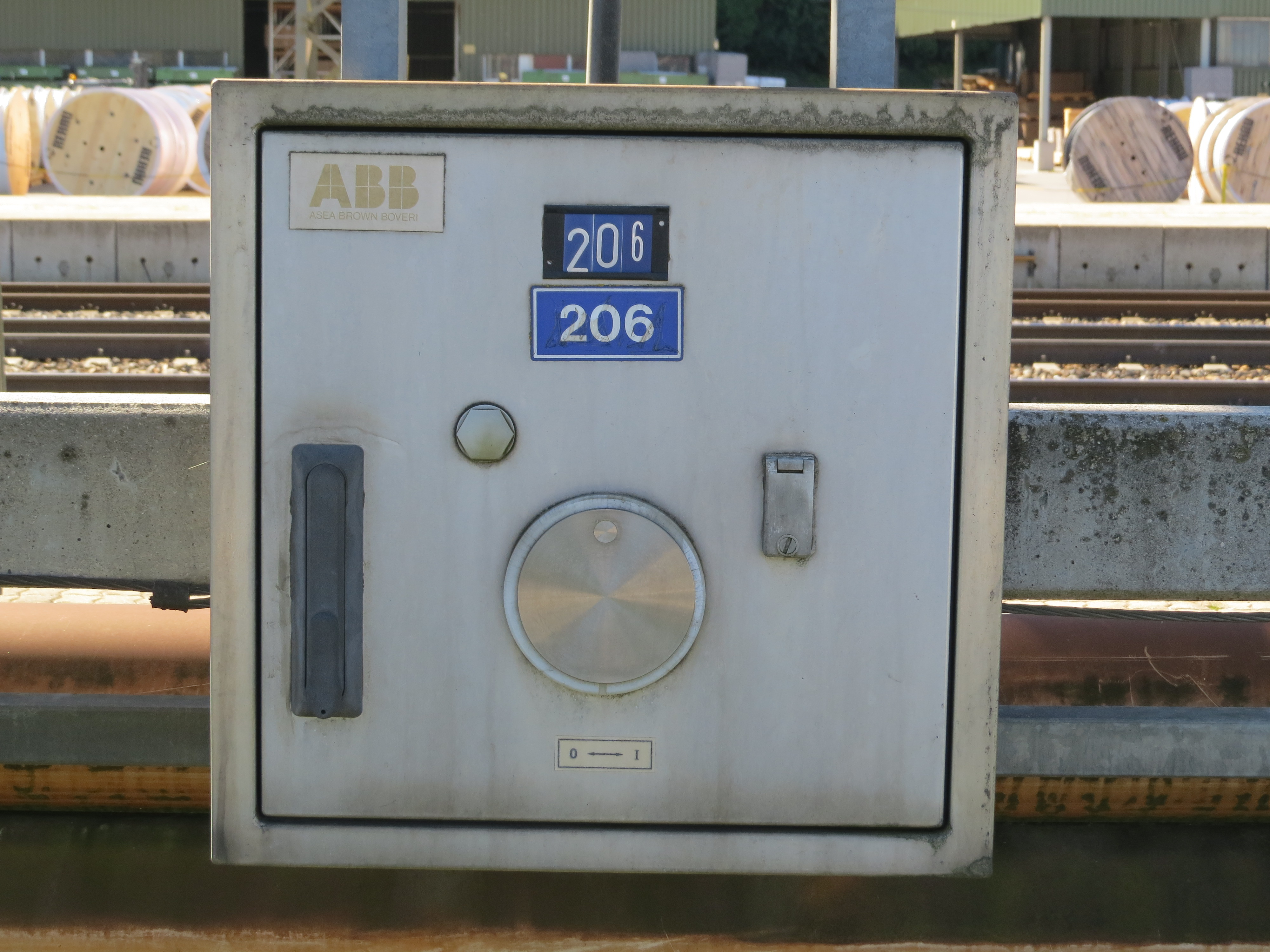 Overhead line switchgear from ABB at Bahnhof Neulengbach, Austria